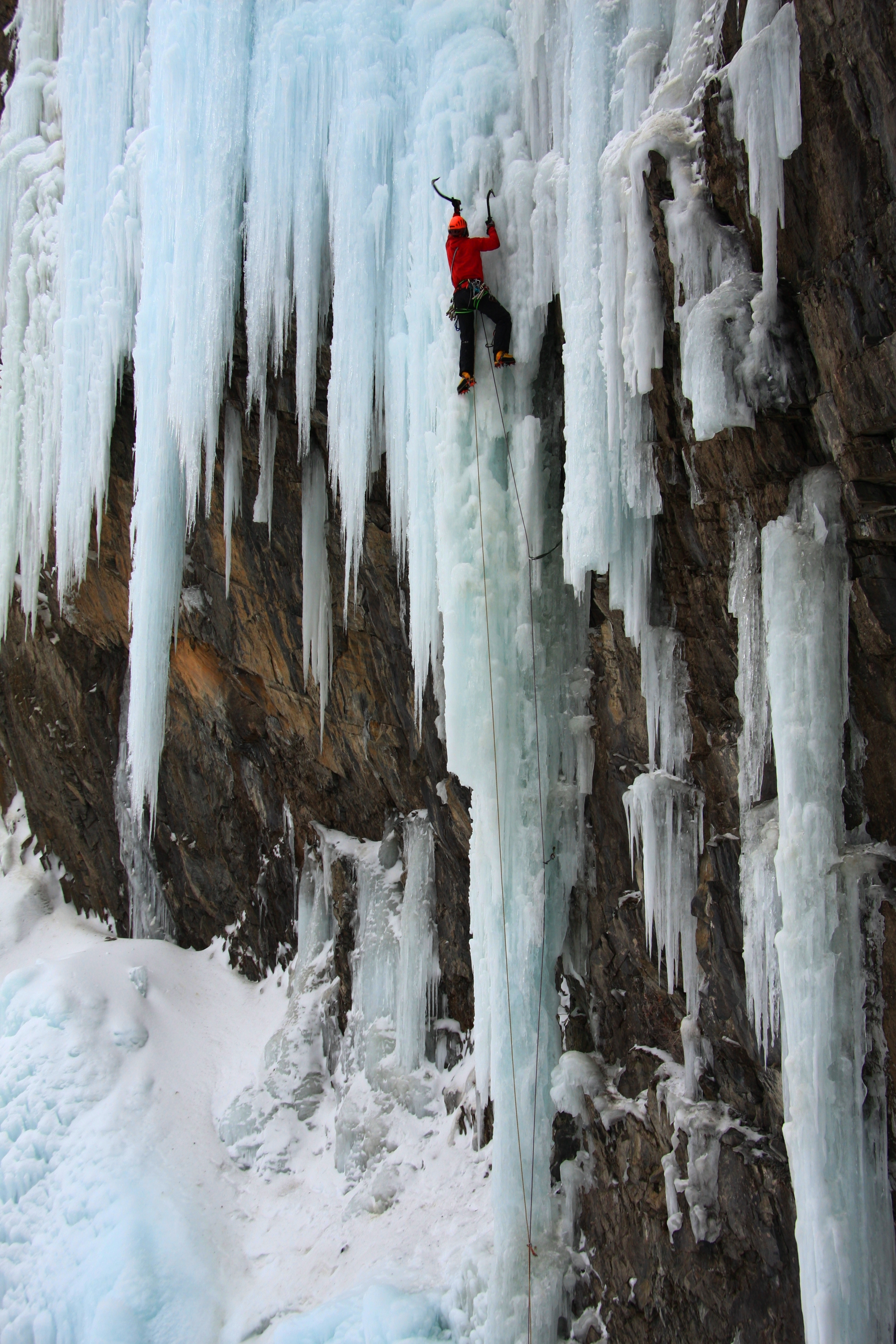 Kristoffer Szilas climbing Pilsner Pillar in Canada. Photo by: Rob Gibson.